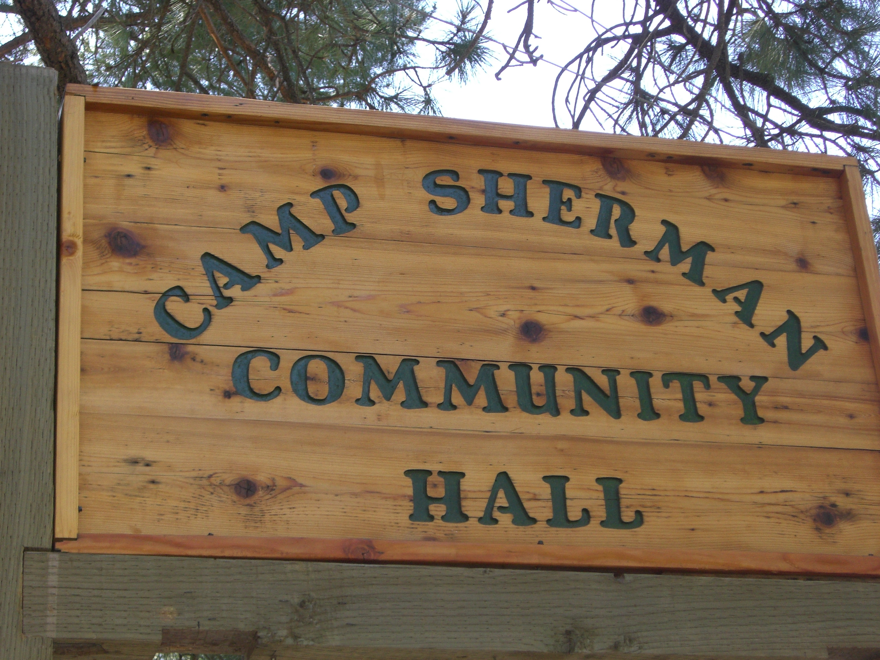 Sign in front of the Camp Sherman Community Hall in Camp Sherman, Oregon.